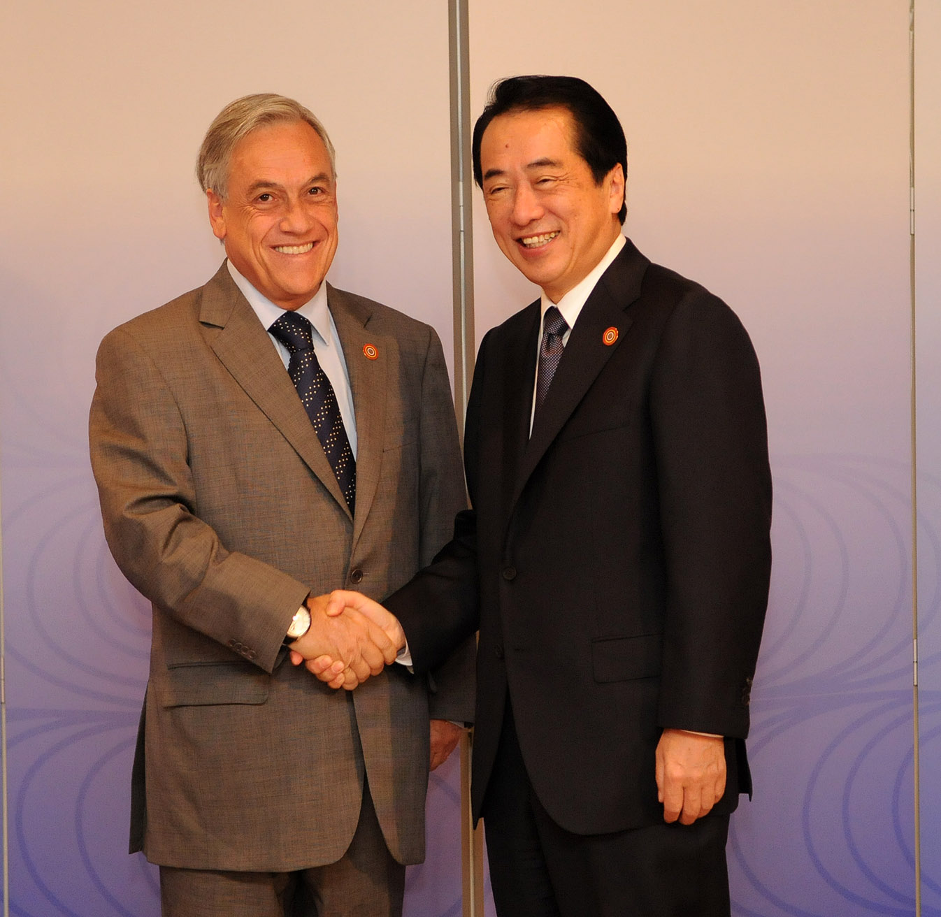 Sebastián Piñera, President, met with Naoto Kan, Prime Minister, at the site of the Asia-Pacific Economic Cooperation Leaders' meeting in Yokohama City, Kanagawa Prefecture on November 13 2010.